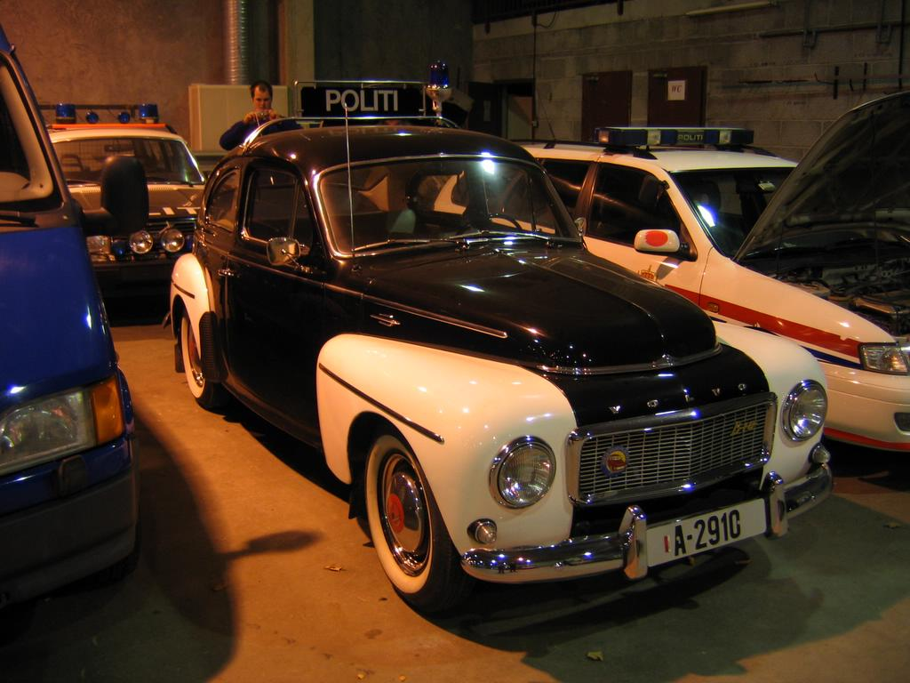 Volvo PV544 police car Picture taken by: Mount73